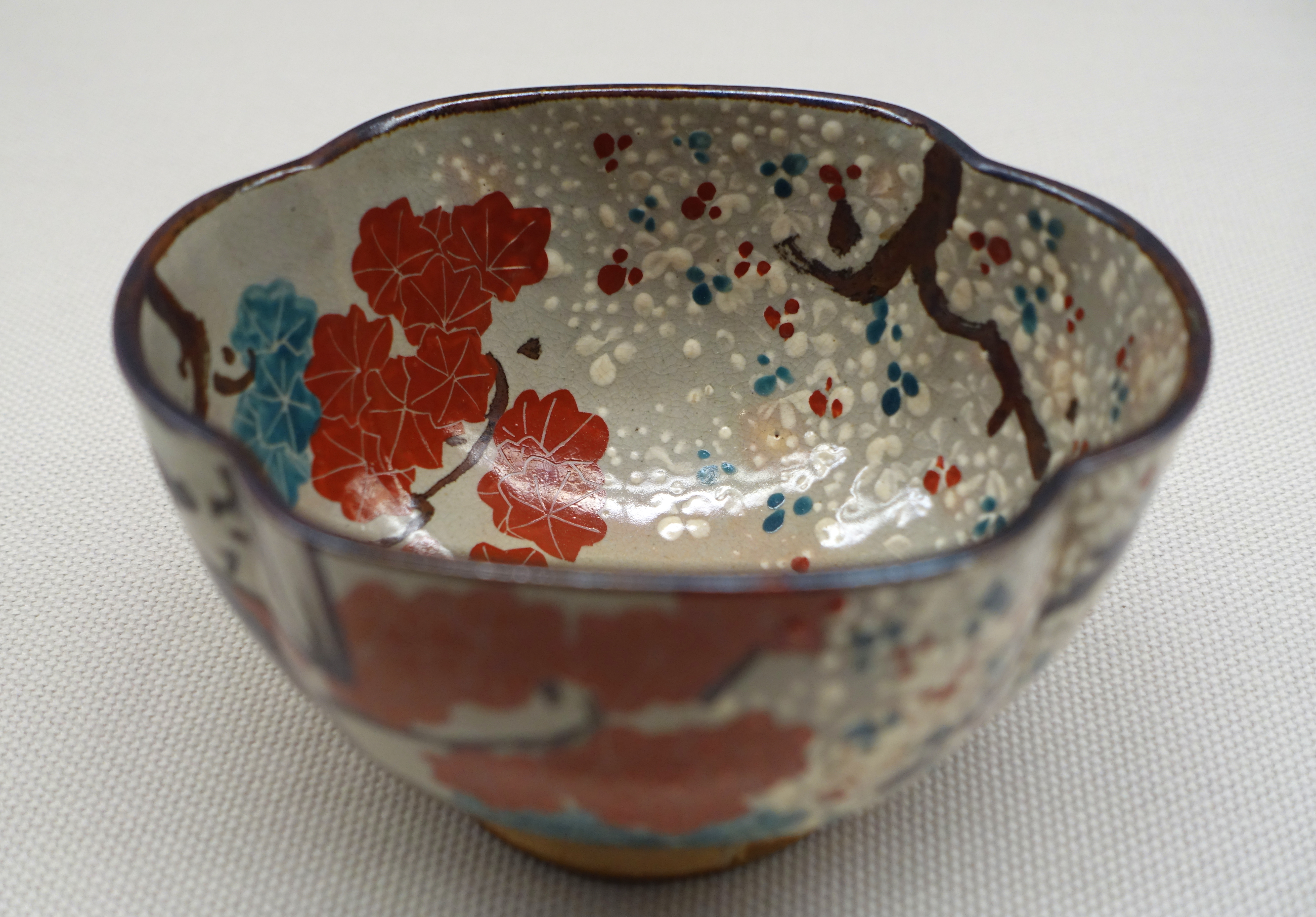 Exhibit in the Ishikawa Prefectural Museum of Traditional Arts and Crafts - Kanazawa, Japan.